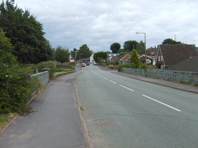 High Street View from the Canal Bridge.